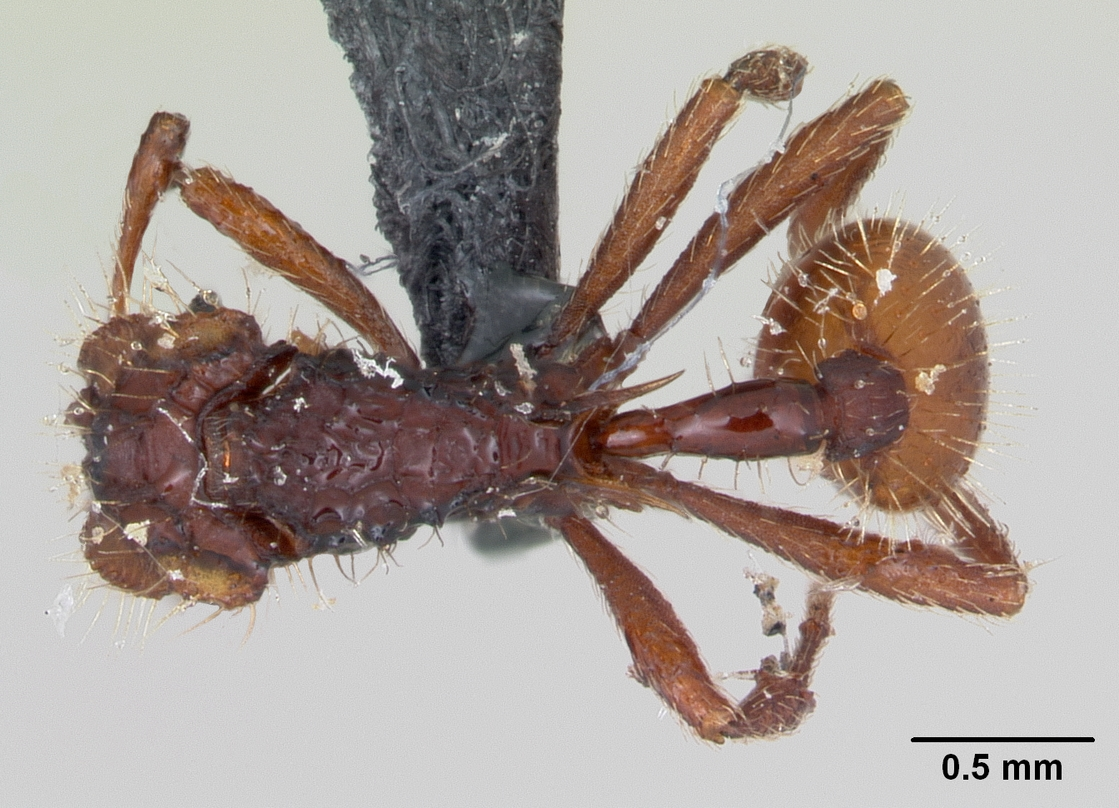 Dorsal view of ant Blepharidatta conops specimen casent0173885.